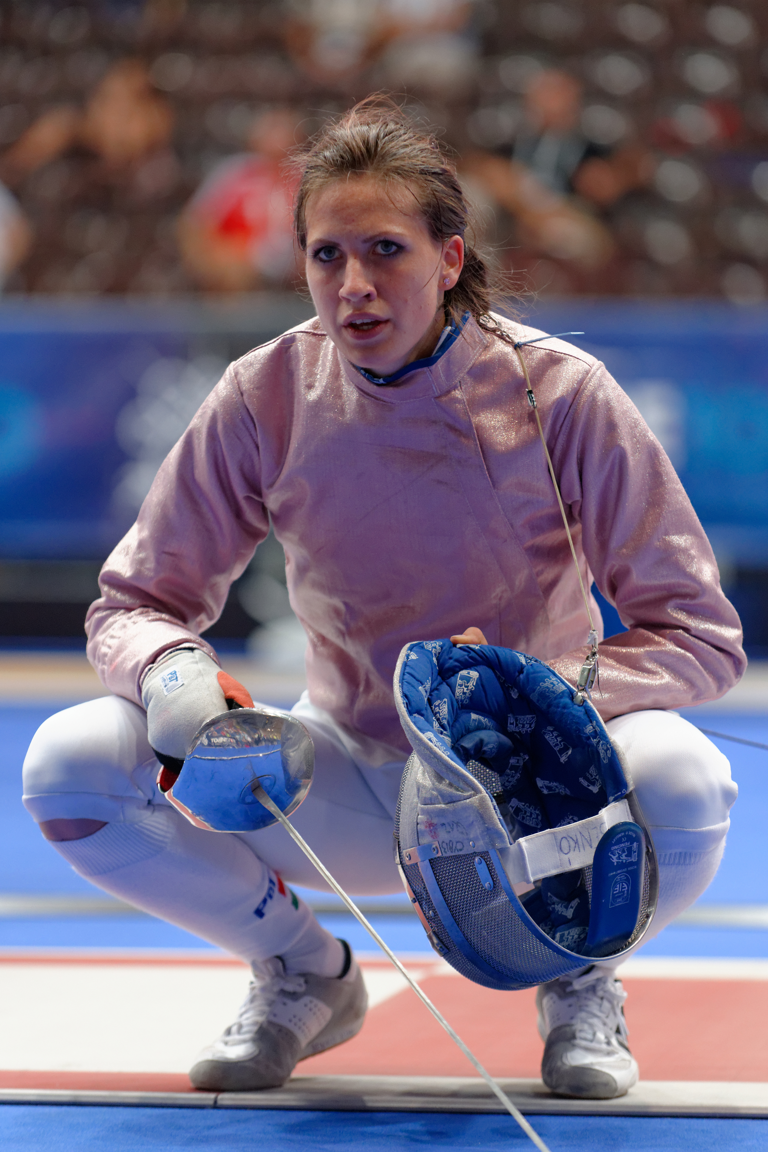 Hungary's Réka Benkó at the women's sabre event of the 2013 World Fencing Championships 2013 at Syma Hall in Budapest on 9 August 2013.